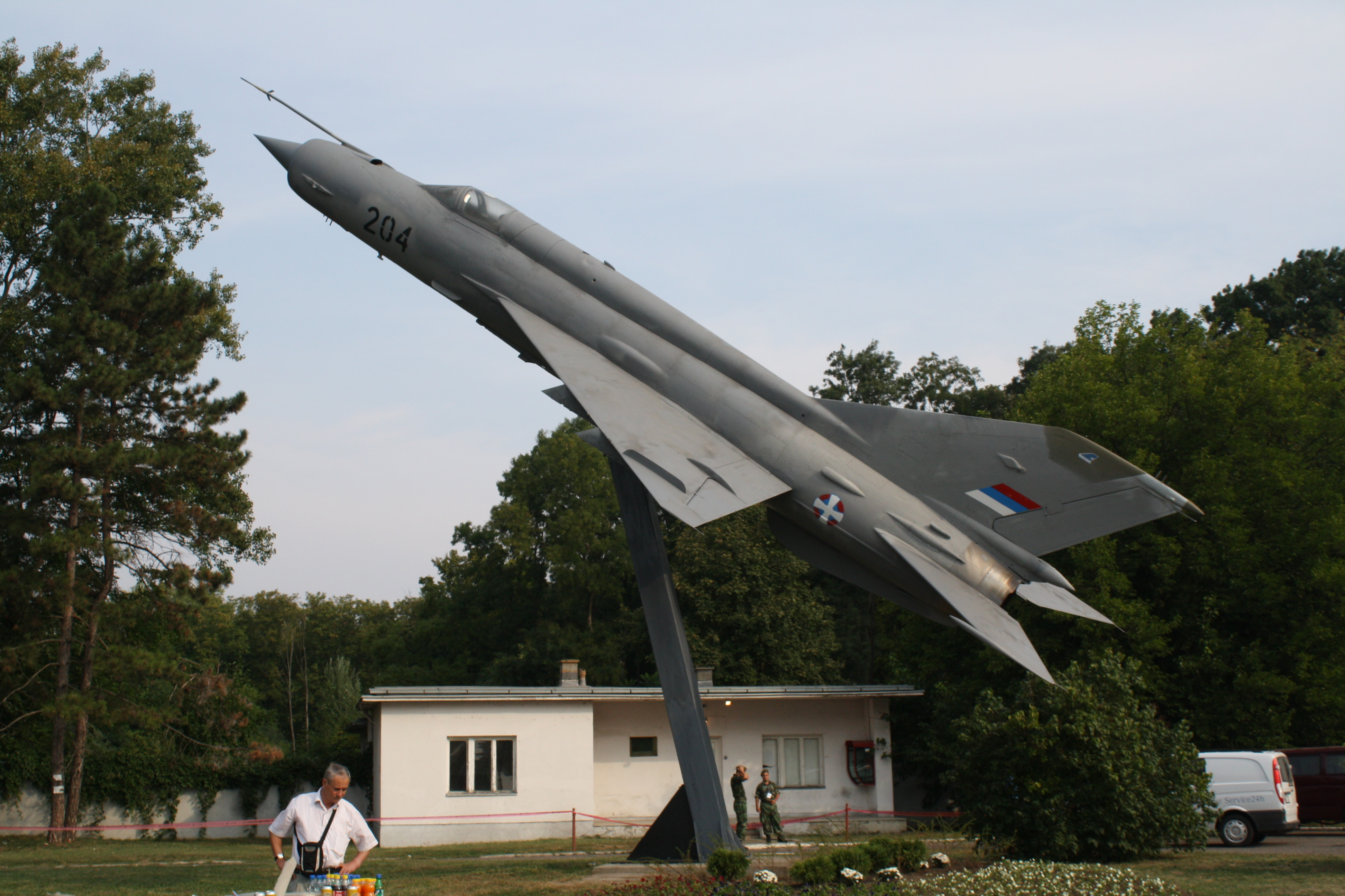 MiG-21 bis gate guard at Batajnica air base. МиГ-21 бис на улазу у Батајнички војни аеродром.